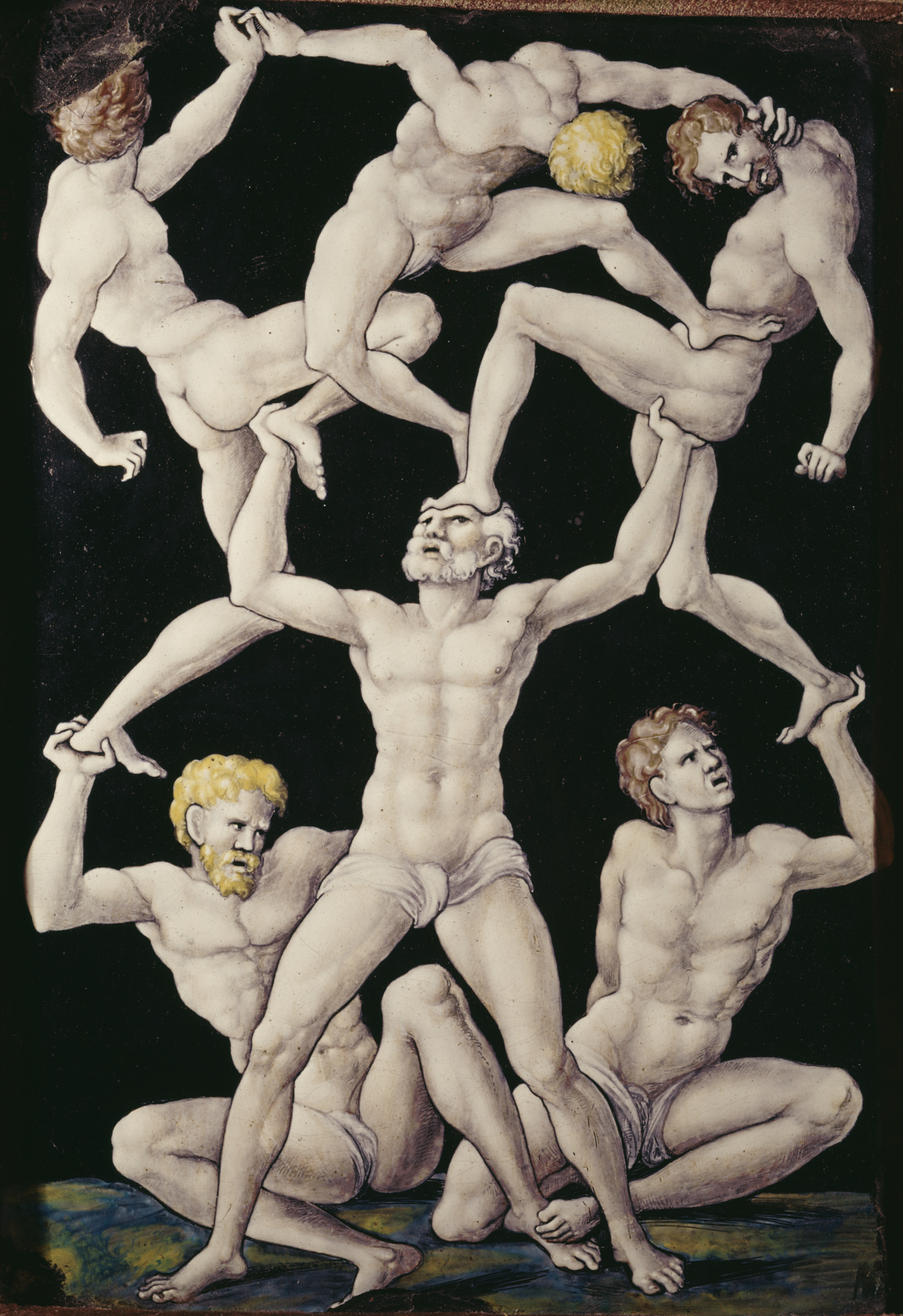 While the subject of this unique plaque is acrobats, its larger theme is the physical and mental agility that underlies the goal of virtuosity so important to artists and patrons of this period. Acrobatics permit the display of masculine agility and strength for their own sake, without an underlying narrative. The contrast with the contained rhythms of the "Plaque with the Three Graces" (Walters 44.219) is striking. The use of "grisaille" accentuates the abstract aspects of the design at the expense of realism. The artist's point of departure may be a design by Juste de Juste (also known as Guisti Betti, 1505-59), a Florentine sculptor who was employed at the Palace of Fontainebleau. The manipulation of anatomy for aesthetic effect is characteristic of the mannerist style that flourished there.